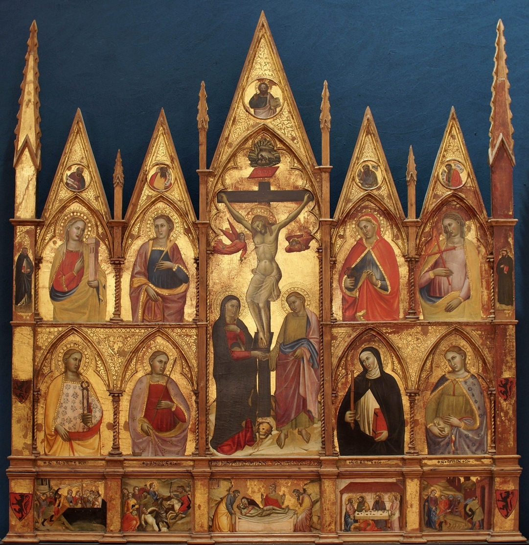 Cecco di Pietro. Crocifissione e Santi, 220x200cm, 1386, Museo Nazionale di S. Matteo, Pisa